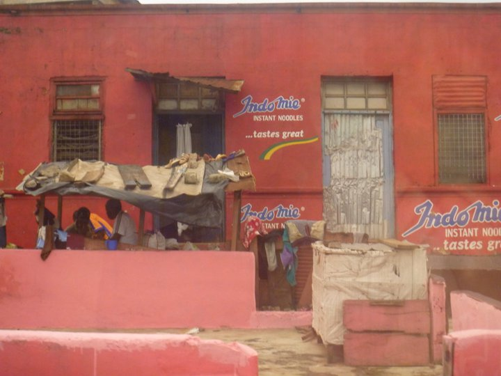 Indomie advertisements painted on a building in Ghana